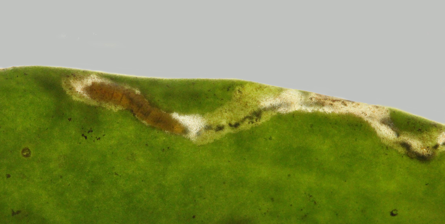 Bucculatrix maritima mine, Talacre, North Wales, May 2012